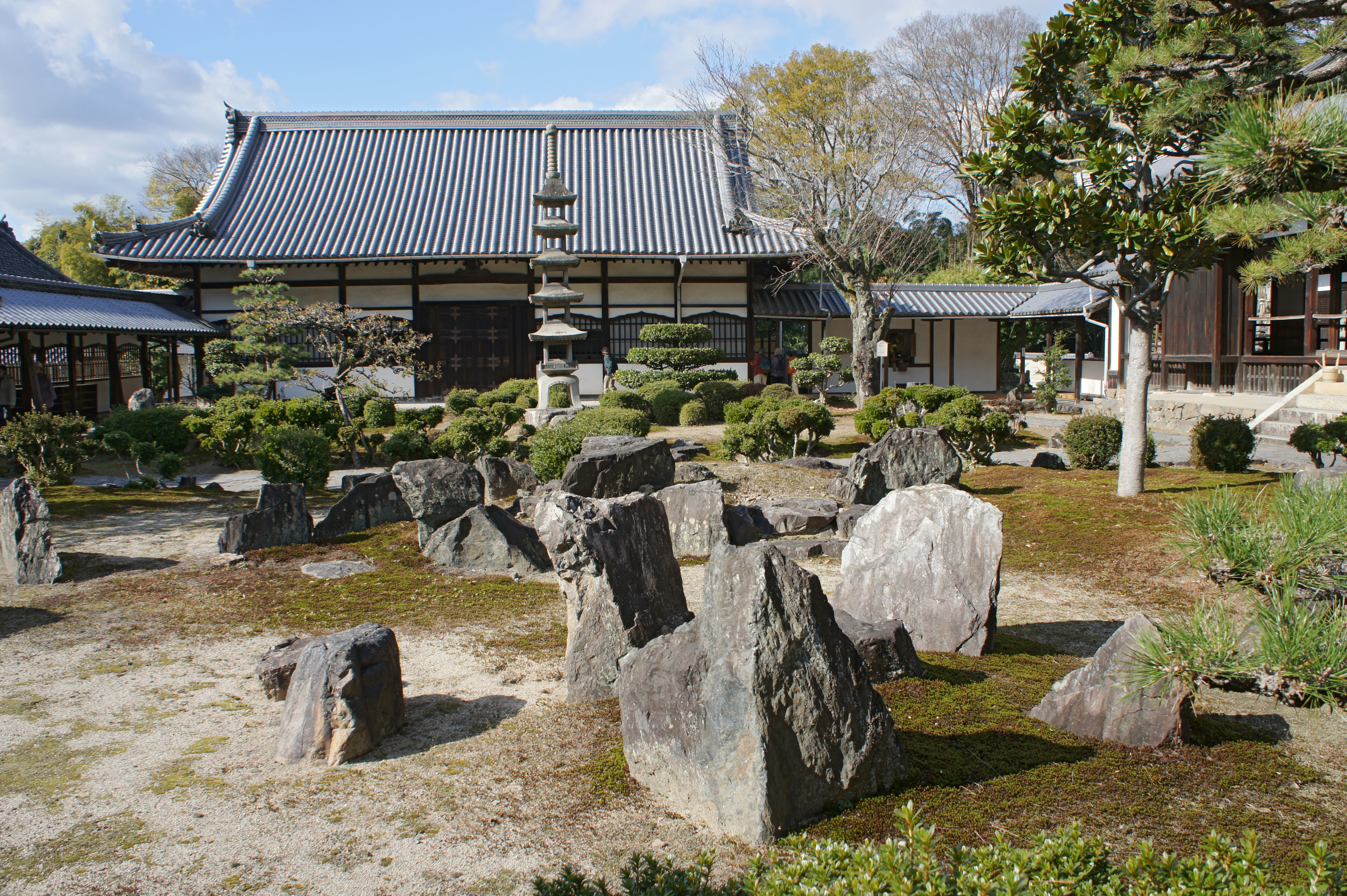 Kōshō-ji in Uji, Kyoto prefecture, Japan.